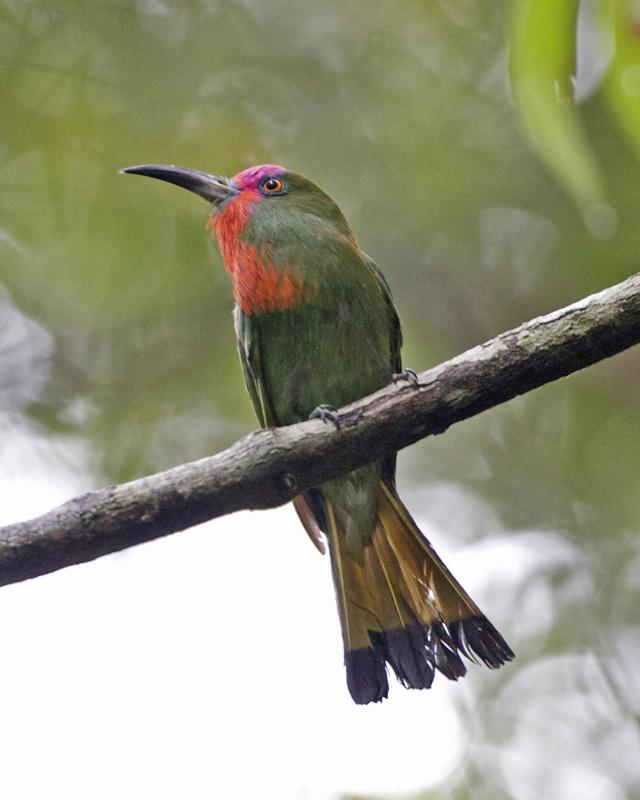 Red-bearded Bee-eater Nyctyornis amictus Panti Forest, Johor, Malaysia 2nd. May 2011 Distribution: 690V1726